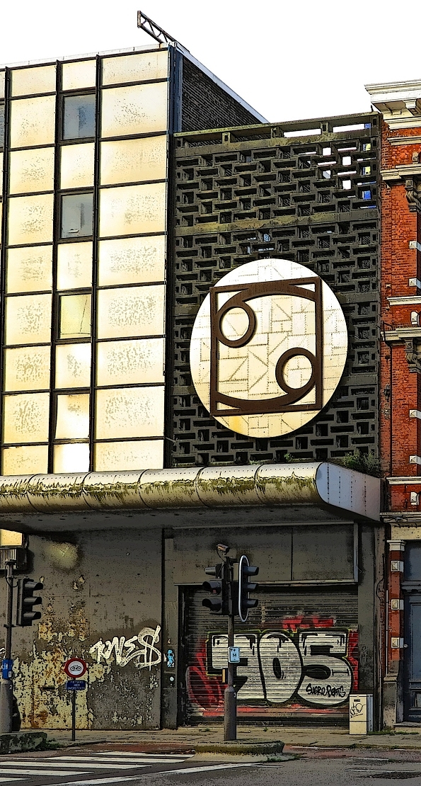 Houses in a State of Depredation